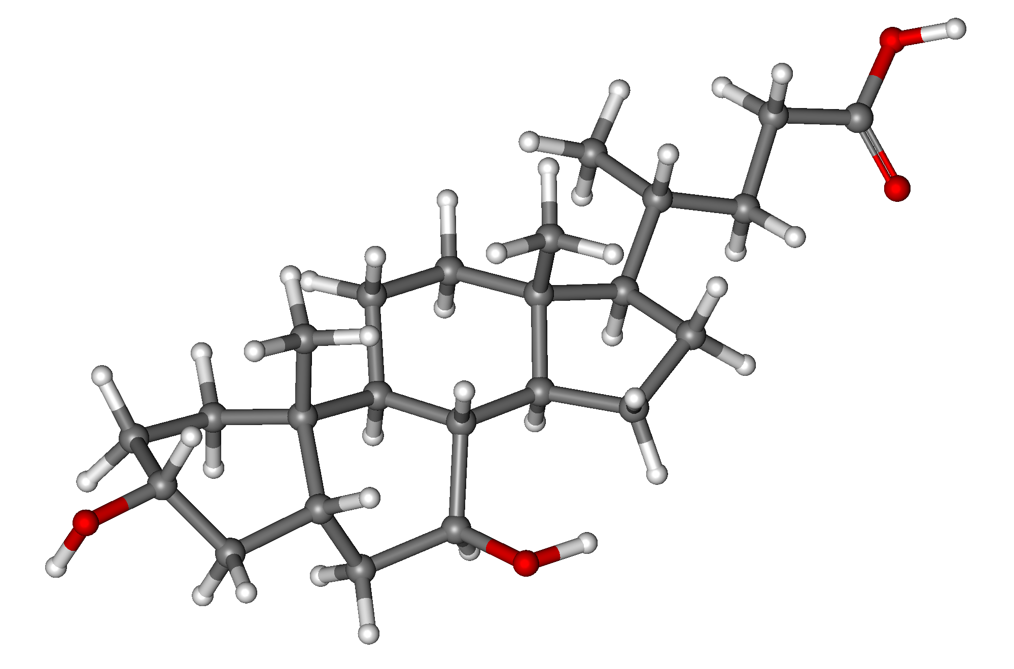 Ball-and-stick model of ursodeoxycholic acid molecule. The structure is taken from ChemSpider. ID 29131